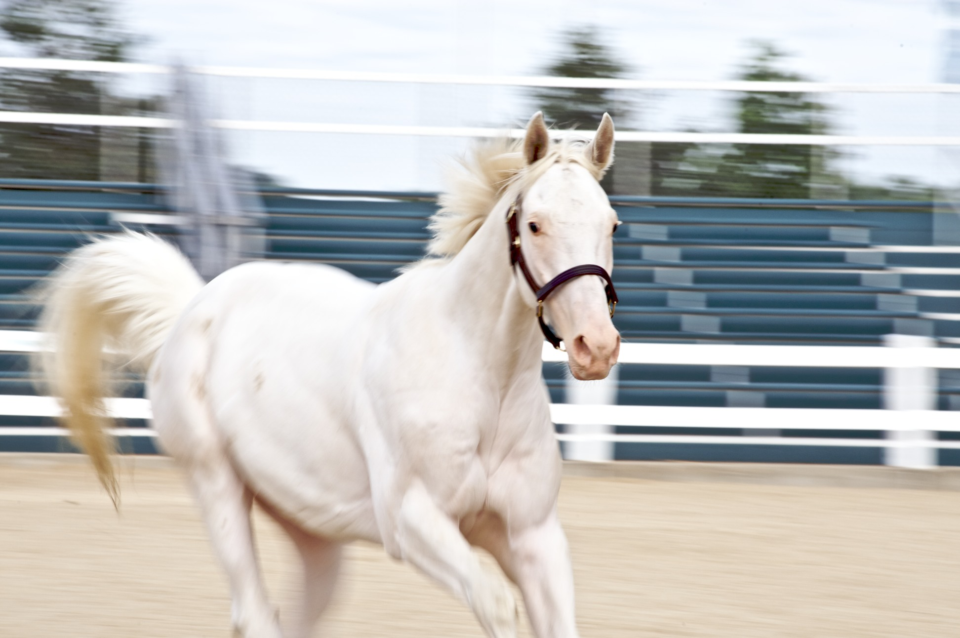 White TB gelding 'White Prince' in Kentucky Horse Park